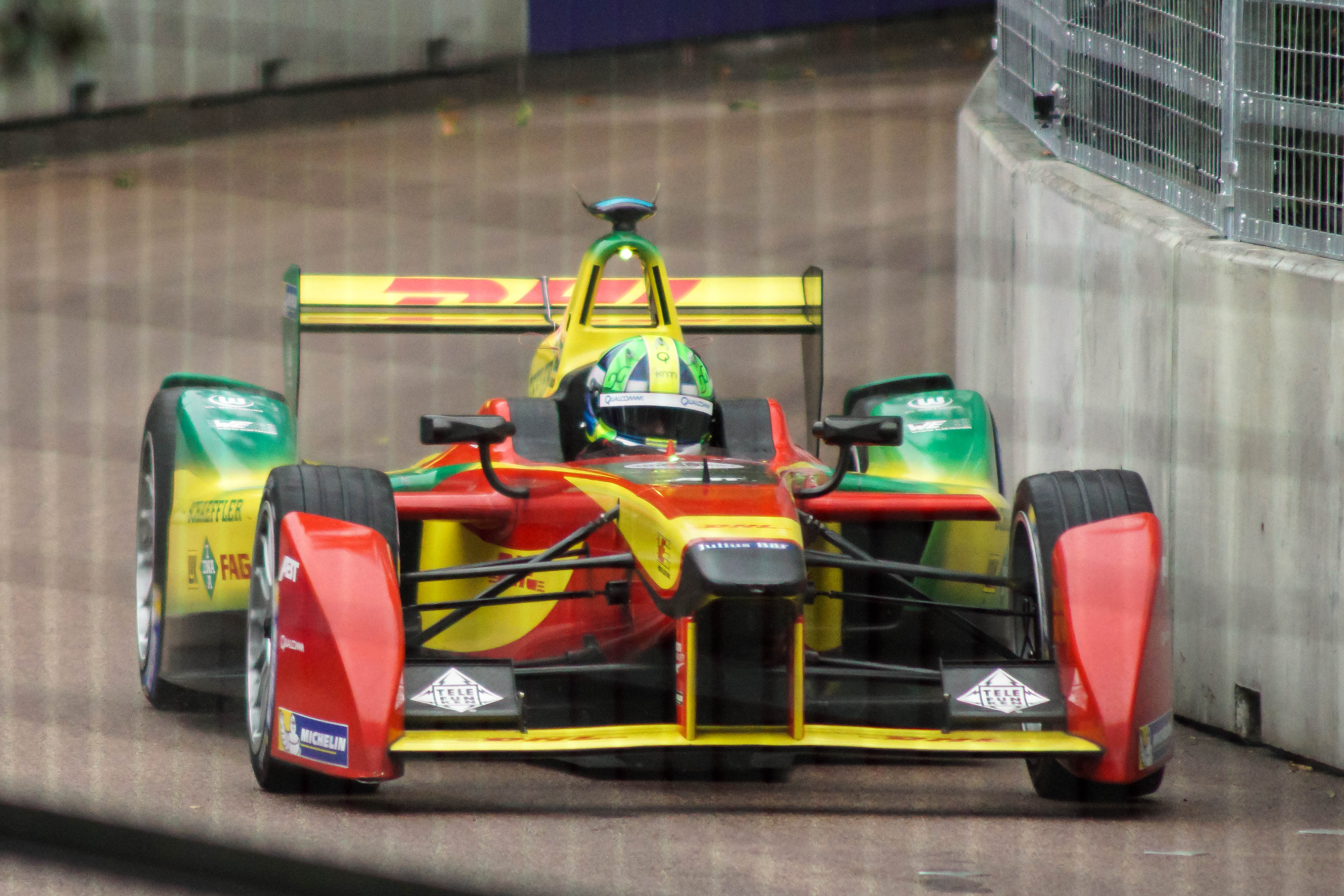 Lucas di Grassi, driving for Audi Sport ABT, during second practice for the 2015 FIA Formula E Visa London ePrix.